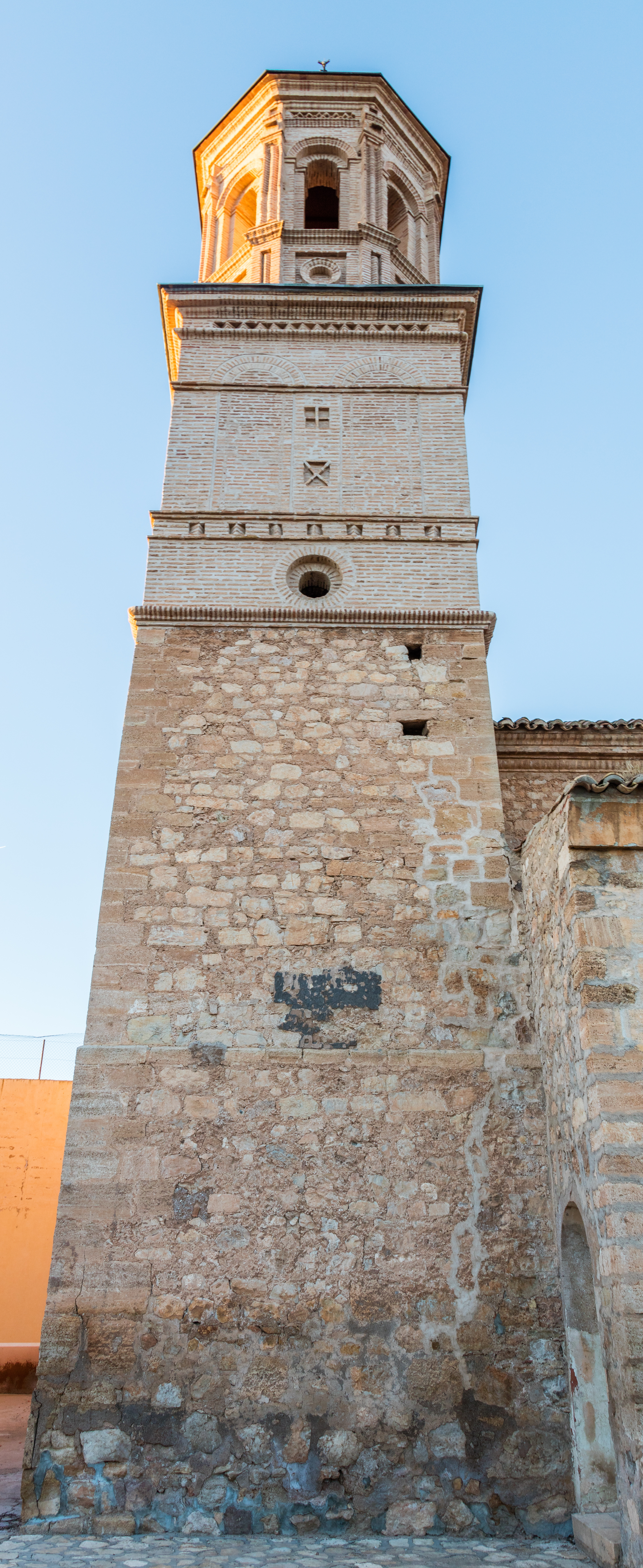 Church of St. Eulalia, Moneva, Saragossa, Spain